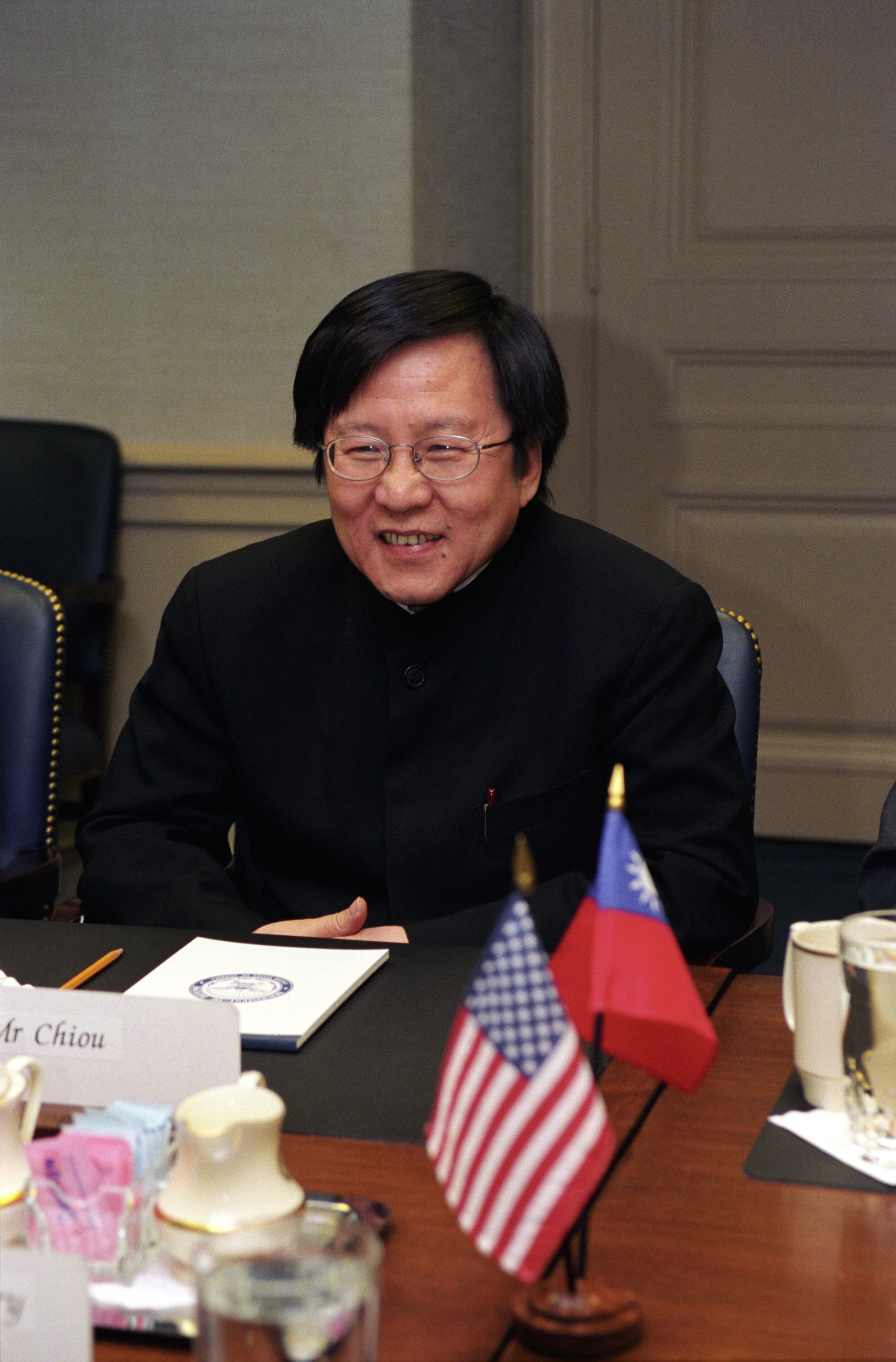 Mr. Chiou I-Jen, Secretary General to the President of Taiwan, attends a meeting with the Honorable Paul Wolfowitz, U.S. Deputy Secretary of Defense, at the Pentagon, Washington, D.C., on July 24, 2003. OSD Package No. A07D-00721 (DoD photo by Ms. Helene C. Stikkel) (Released)